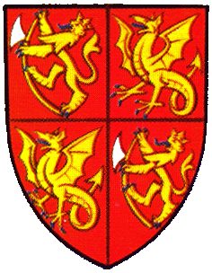 Attributed coat of arms of King Cnut (who lived before standardized coats of arms came into use) by Matthew Paris. A 13th century fantasy coat of arms.